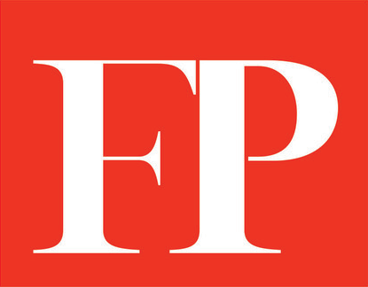 Foreign Policy logo as of 2017